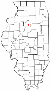 Category:Illinois_city_locator_maps Summary Location of Varna within Marshall County and Illinois.